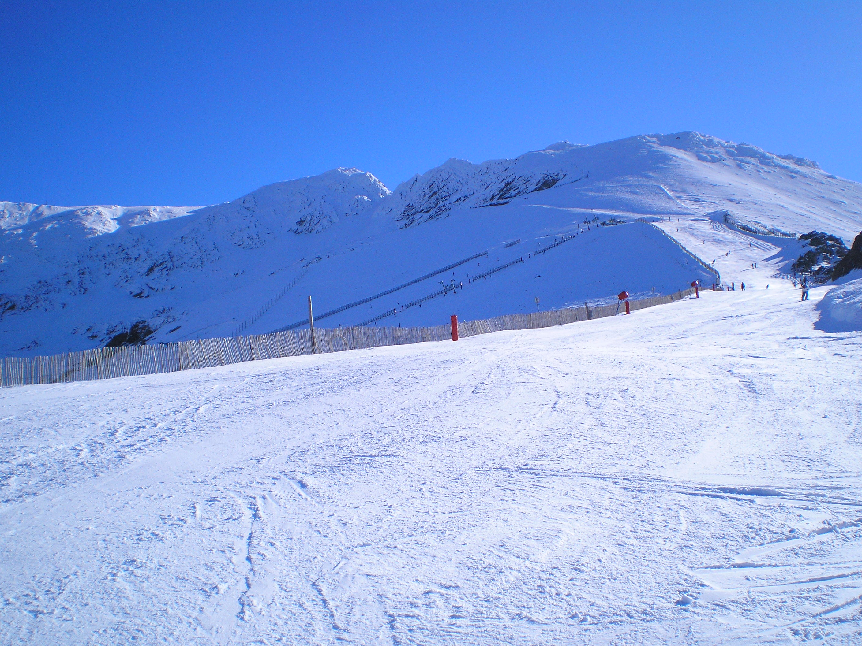 Ski Resort of La Pinilla, Segovia, Spain.